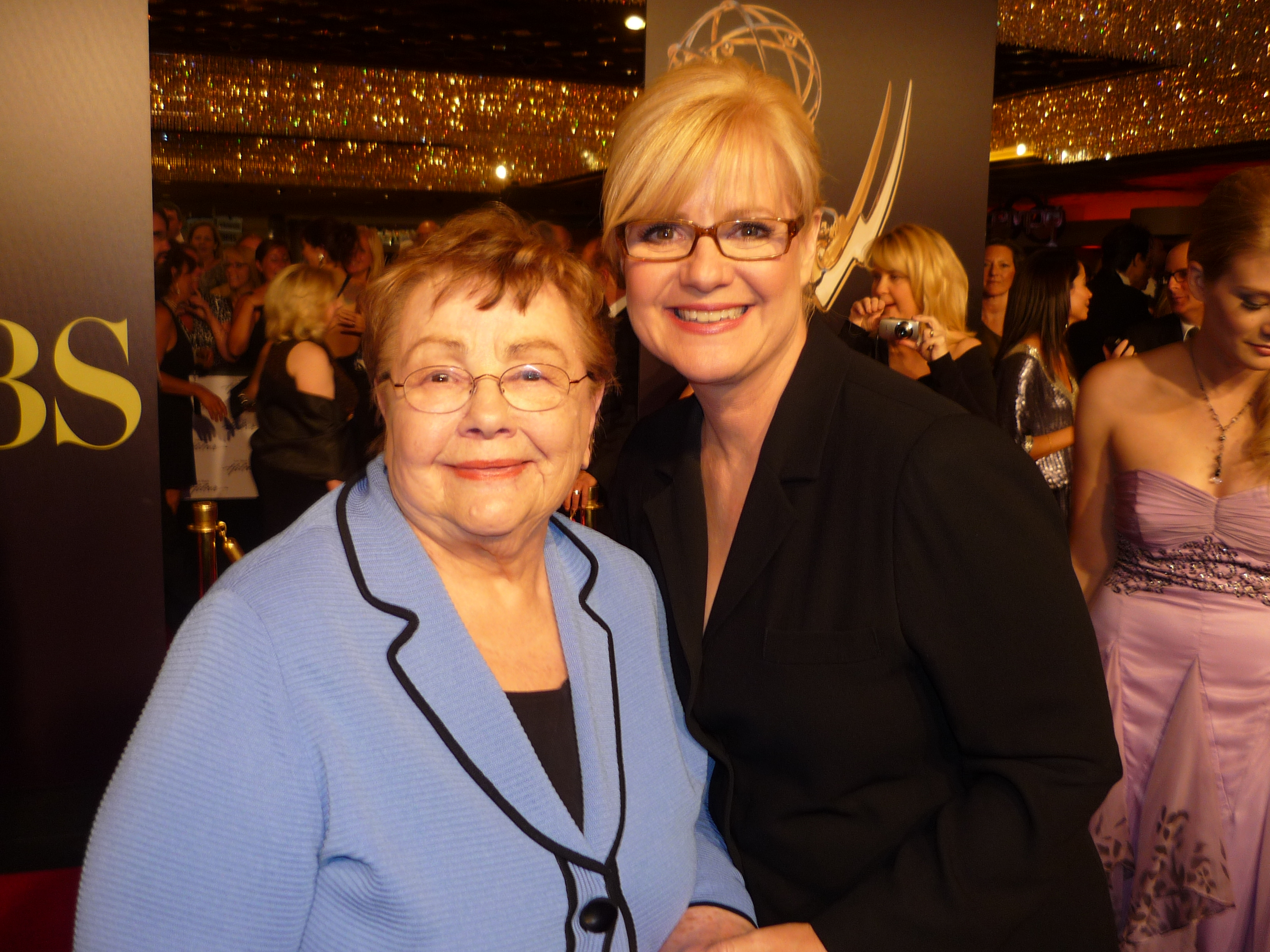 Bonnie Hunt and her mother Alice at 2010 Daytime Emmy Awards.